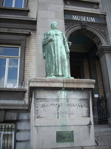 Bronze statue of Theodor Schwann (1810-1882), founder of the cell theory for all living organisms (1839), Institute of Zoology, Liege, Belgium.